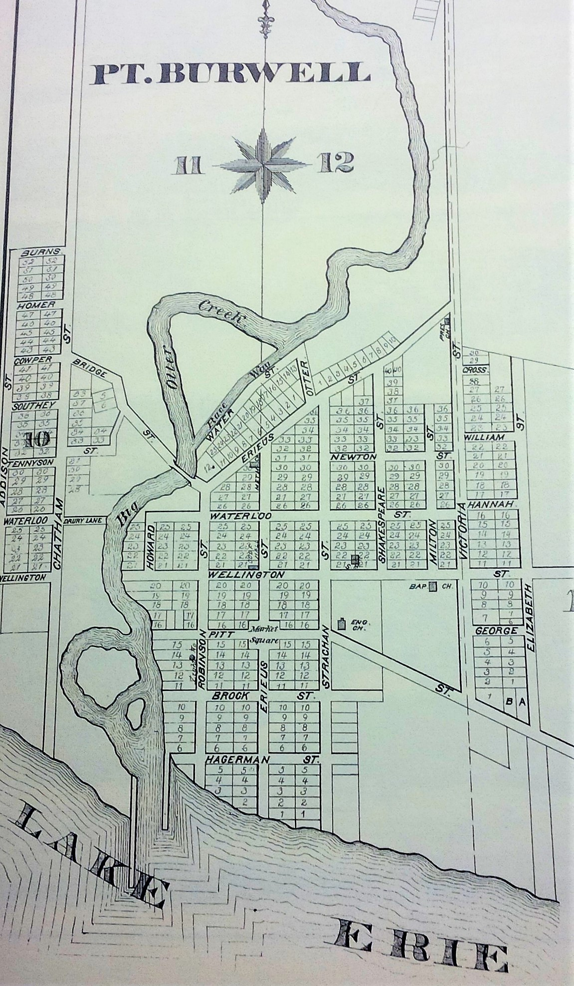 Created this cropped and enhanced version of village map from drawing in Page & Company's Illustrated Historical Atlas of County of Elgin (1877), which is in the public domain